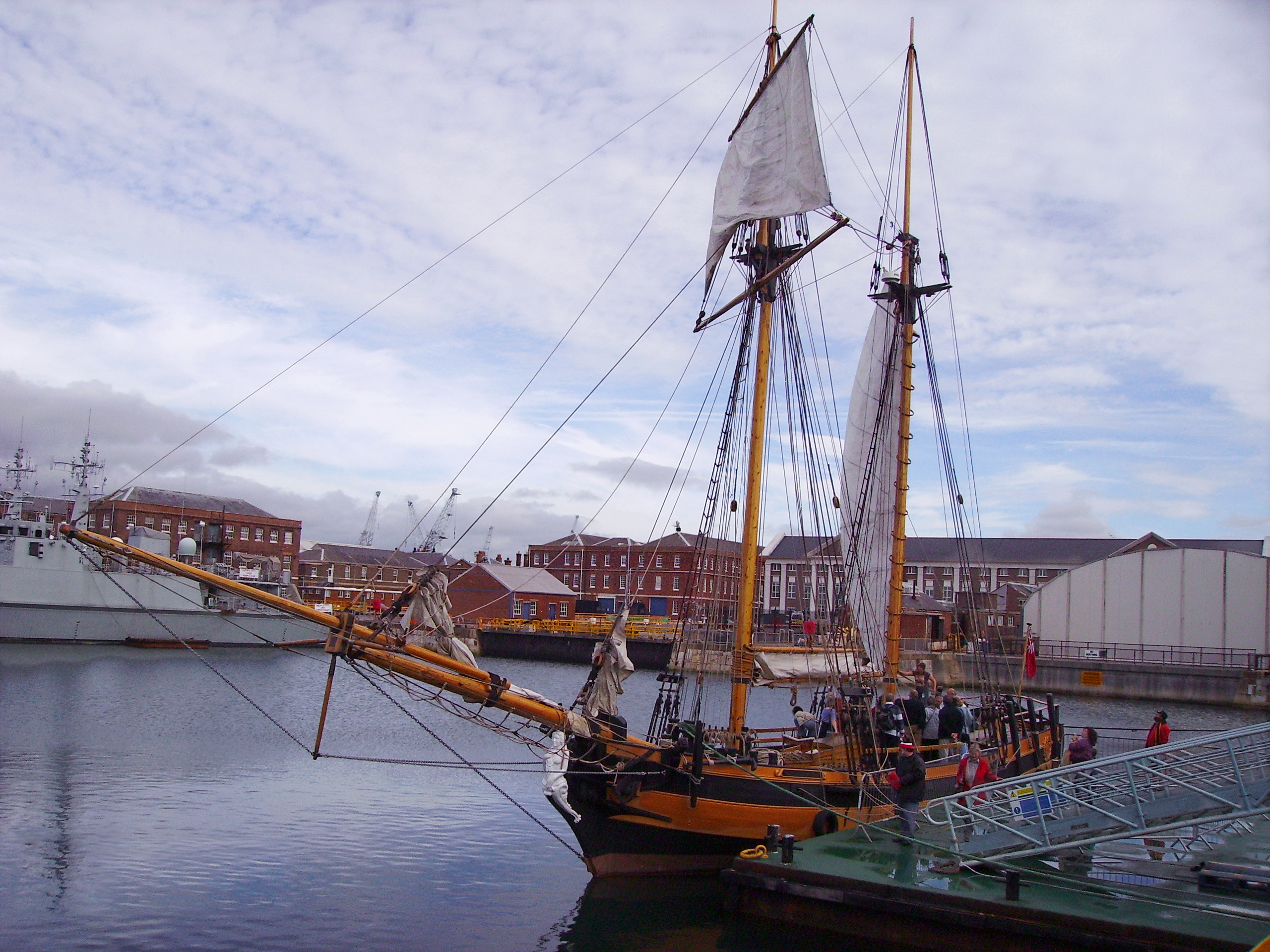 A replica of HMS Pickle, a Bermuda sloop (built as the merchantman Sting), which carried the news of British victory back to Britain from the Battle of Trafalgar. The ship is of a type traditional to Bermuda, and many were commissioned from Bermudian builders or bought-up from trade by the Royal Navy, first to counter French privateers, then as Advice boats.